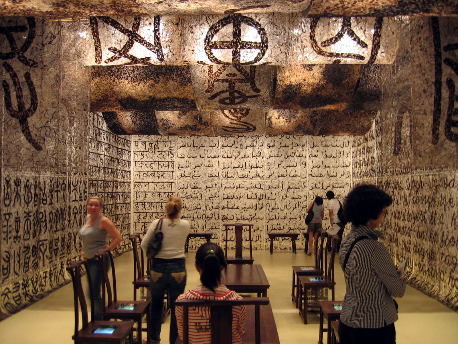 Three Thousand Troubled Threads